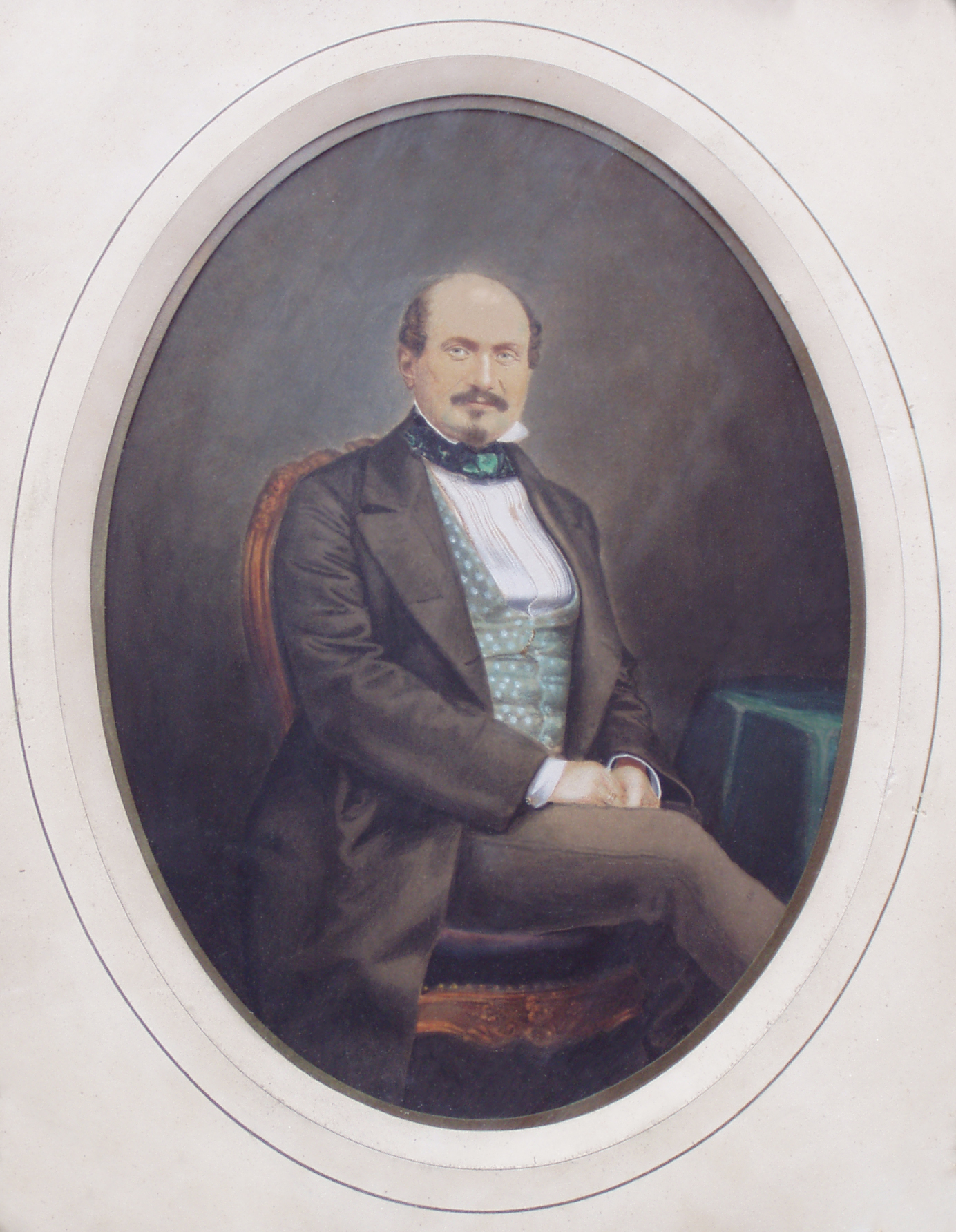 Teofil Ostaszewski (1807-1889). Size of the oval picture: 243mm x 295mm. Picture of ca 1850